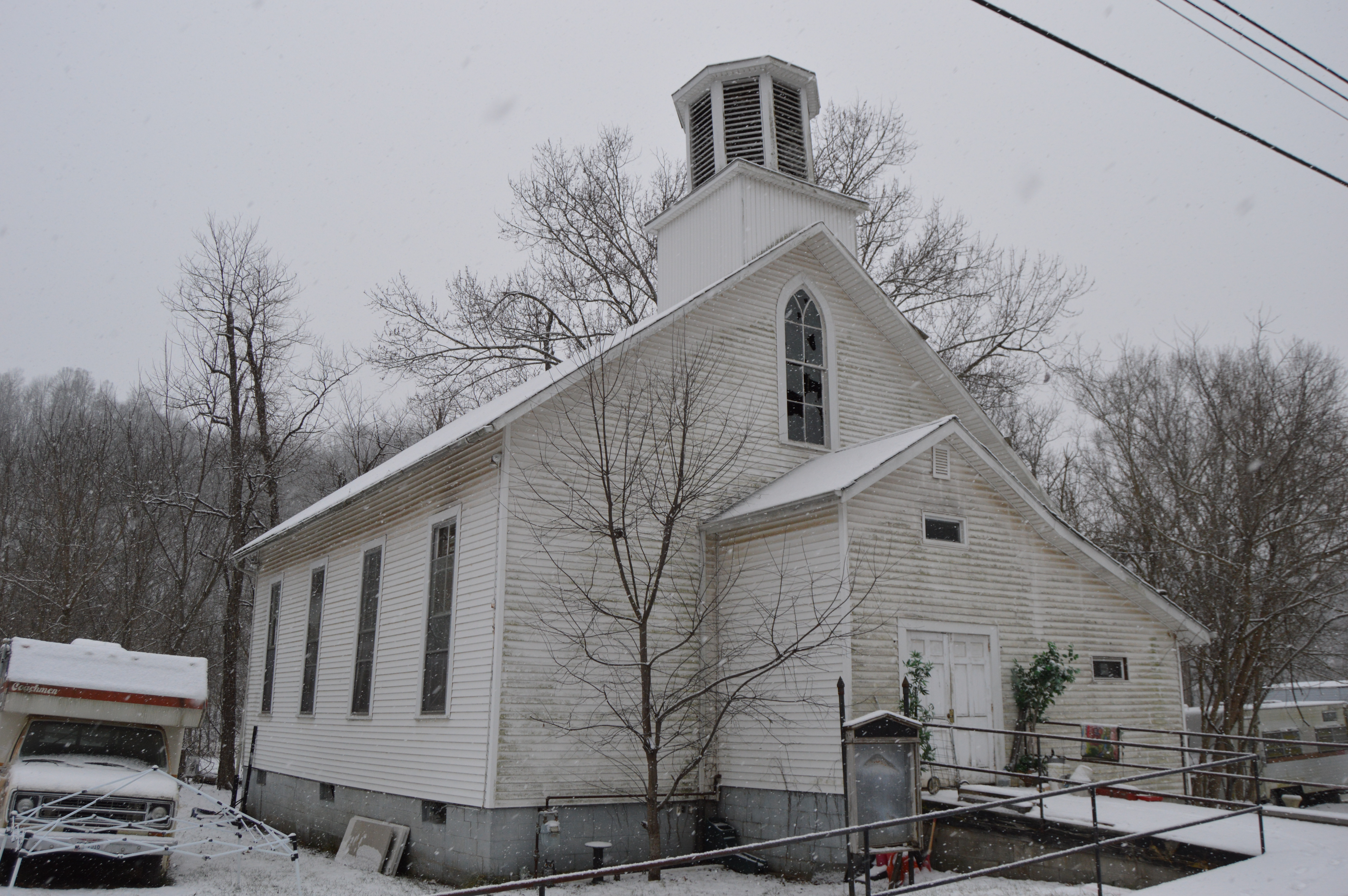 A church (no name specified) on the southern side of State Route 821 at Elba in Aurelius Township, Washington County, Ohio, United States.